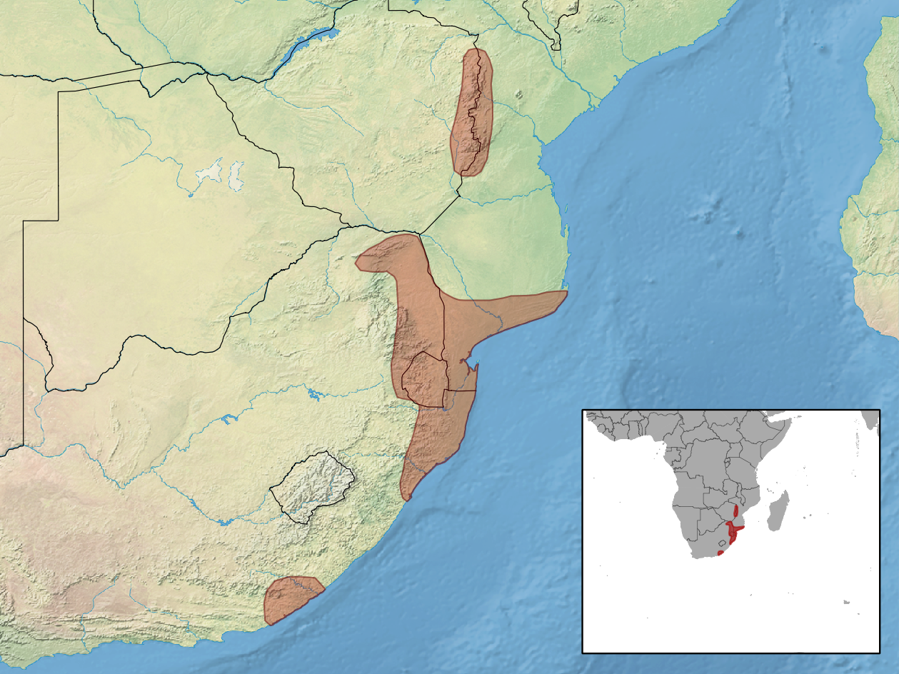 geographic distribution of Acontias plumbeus